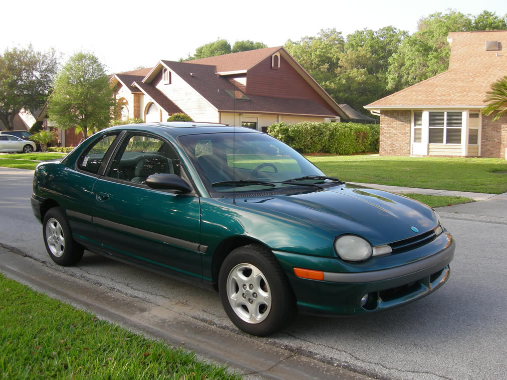 1995 Plymouth Neon Sport Coupe